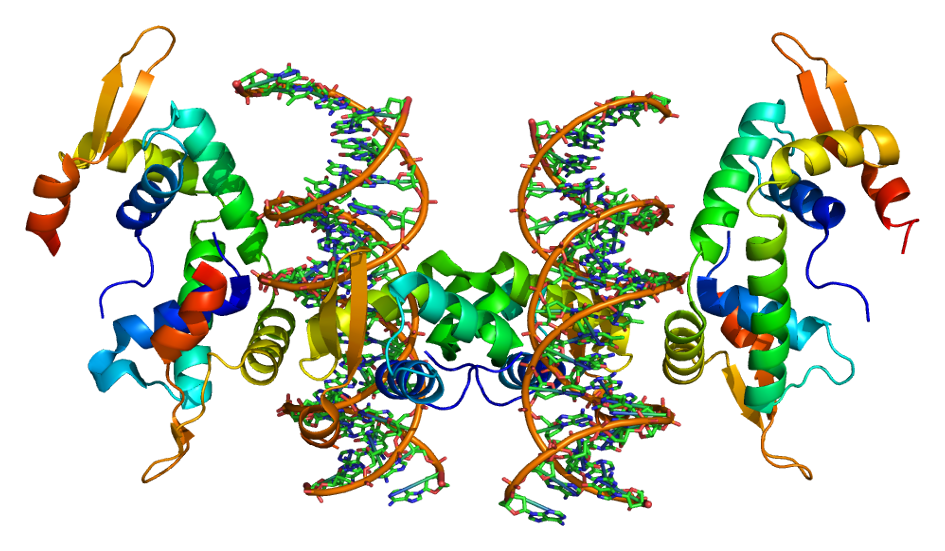 Protein structure image, PDB ID 2a07 (test, using standard non-chainbow coloring of DNA, stick rendering on DNA)